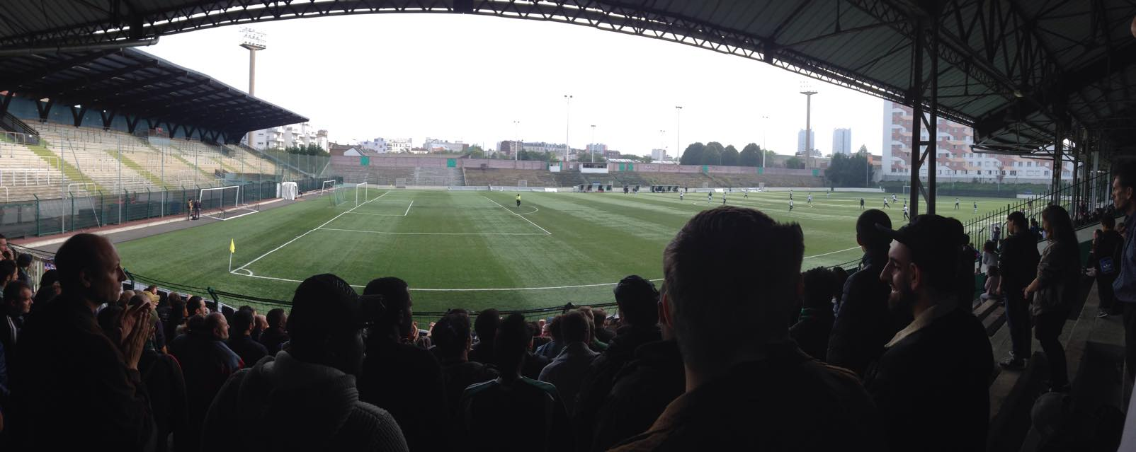 Stade Bauer, Tribune Rino, 4 Octobre 2015, Red Star B - Ararat Issy